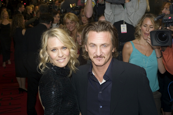 Sean and Robin Wright Penn, All the King's Men Premiere